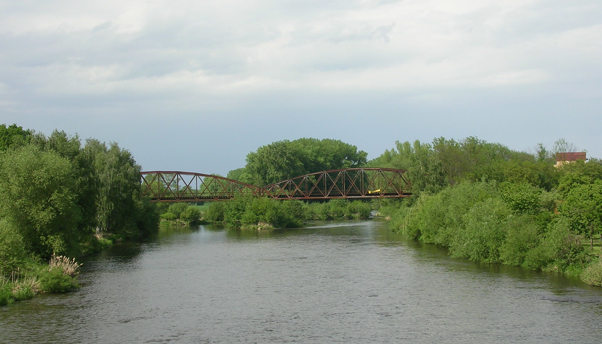 Boršov nad Vltavou, České Budějovice District, South Bohemian Region, the Czech Republic. Old railway bridge.